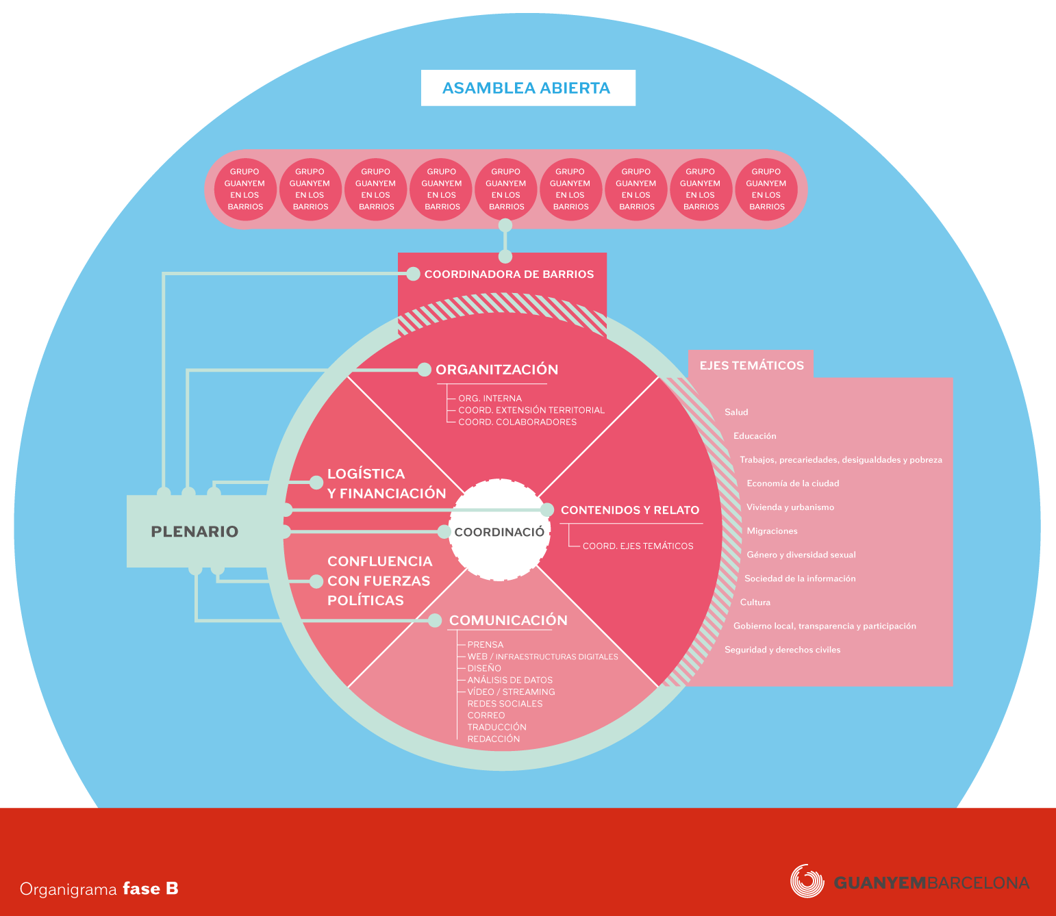 Guanyem Barcelona organizational diagram.